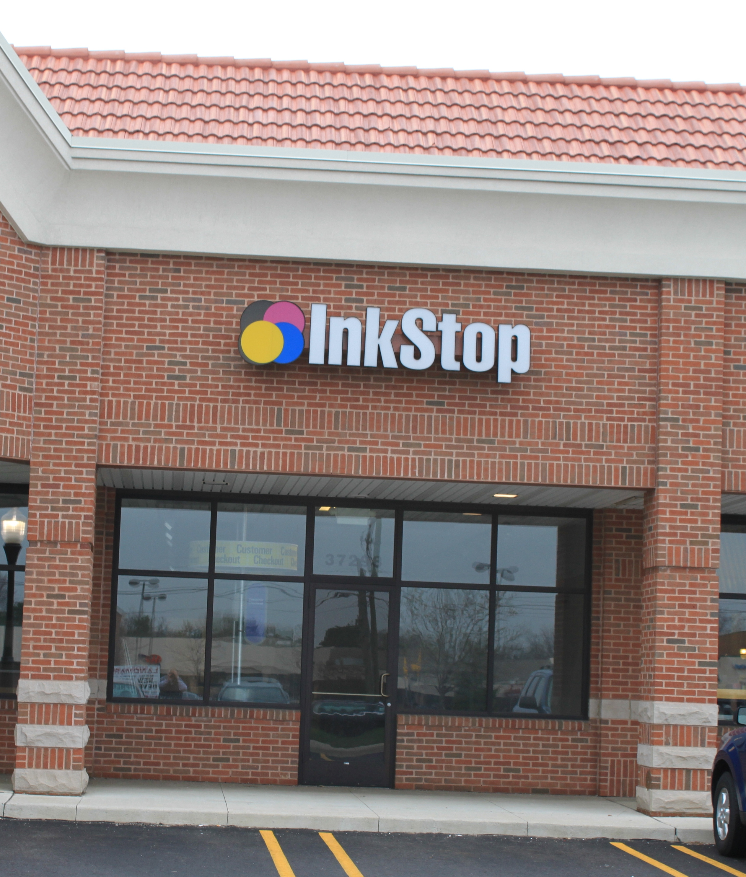 InkStop store, 37298 Six Mile Road, Livonia, Michigan